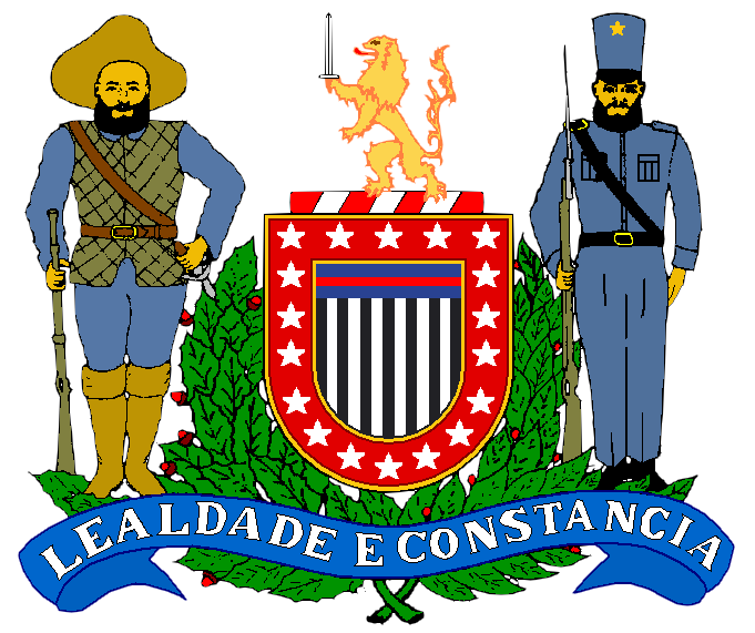 Coat of arms of Military Police - PMESP - Brazil.